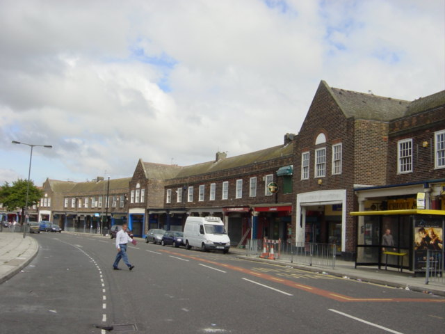 Broadway , Norris Green. Broadway is a popular shopping area for the residents of Norris Green. For admininstrative purposes it is in Clubmoor ward